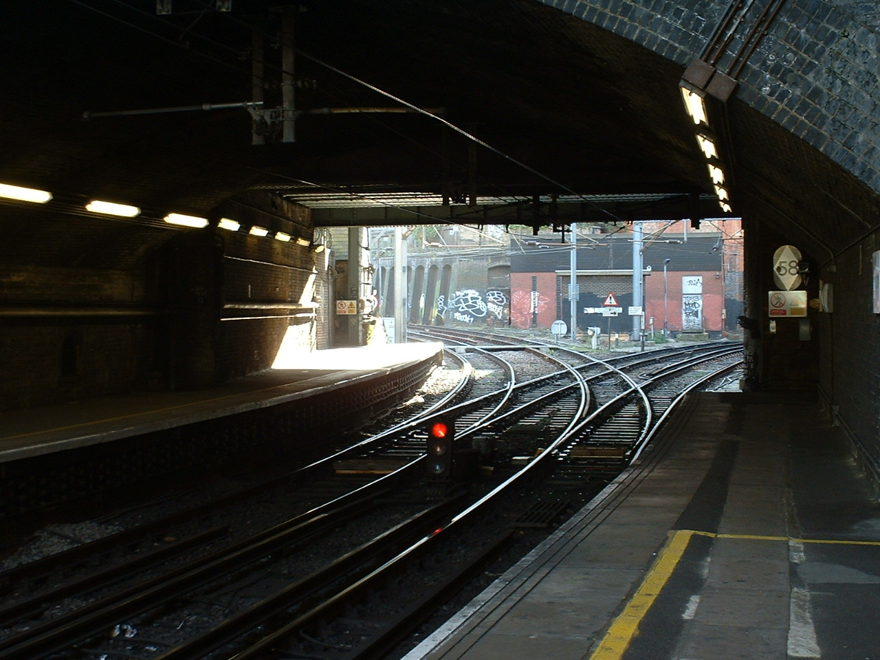 Farringdon junction, just south of the Thameslink platforms. Moorgate branch to the left, Snow Hill line to the right.